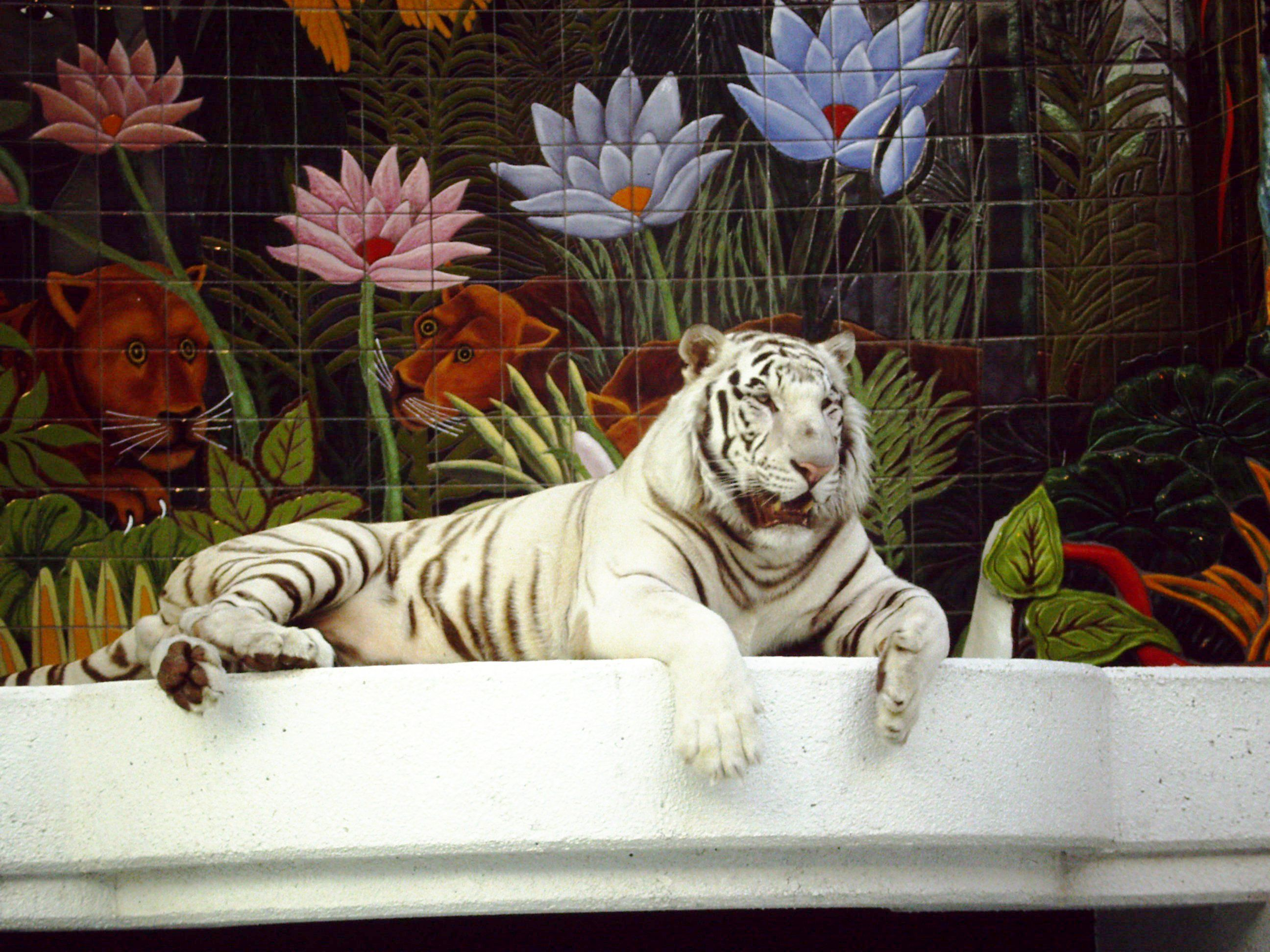 White tiger for the show by Siegfried & Roy at The Mirage Hotel & Casino, Las Vegas, Nevada, USA, 1990